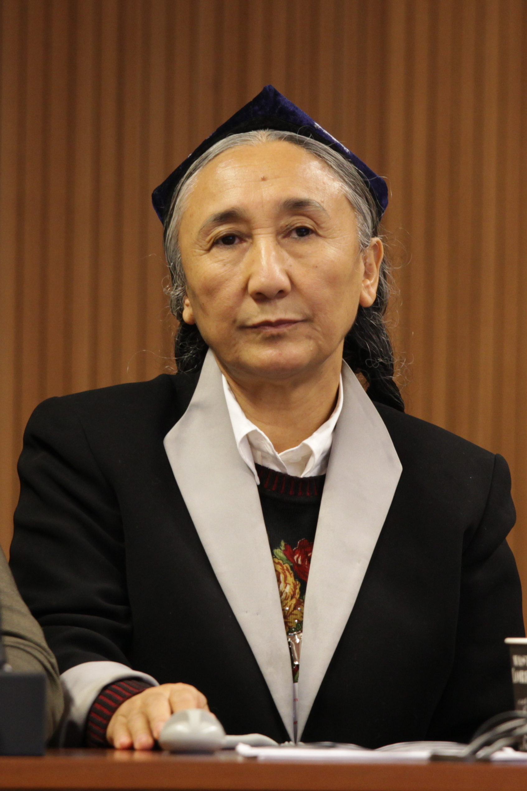 Panel discussion "Guaranteeing the Rights of Minority Women" at the Forum on Minority Issues, United Nations at Geneva. U.S. Mission Photo by Eric Bridiers